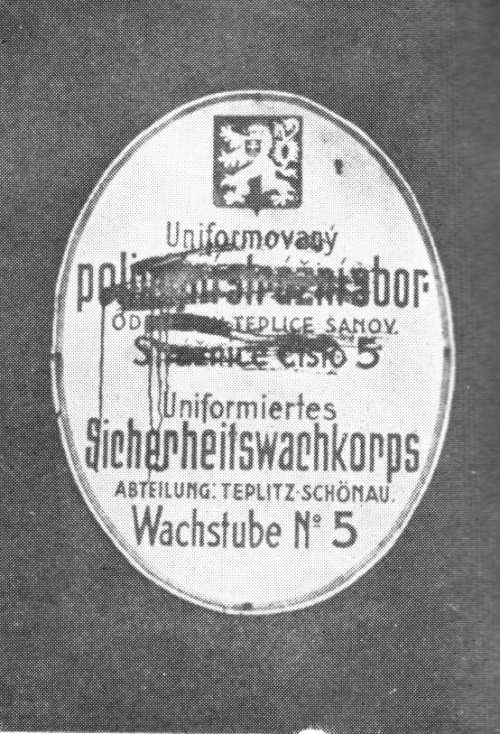 Stained sign at the Czech-German border in 1938